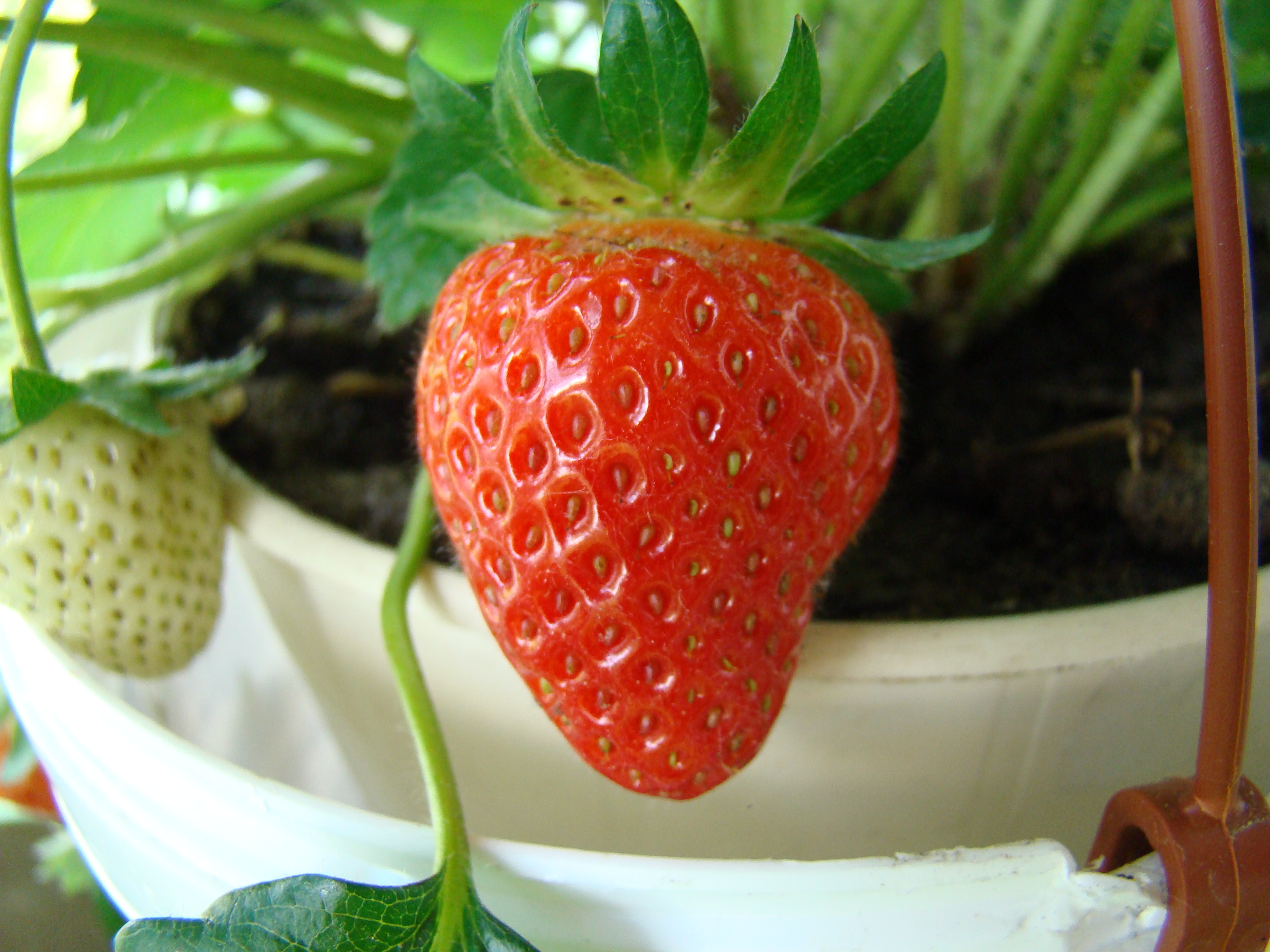 Fragaria vesca